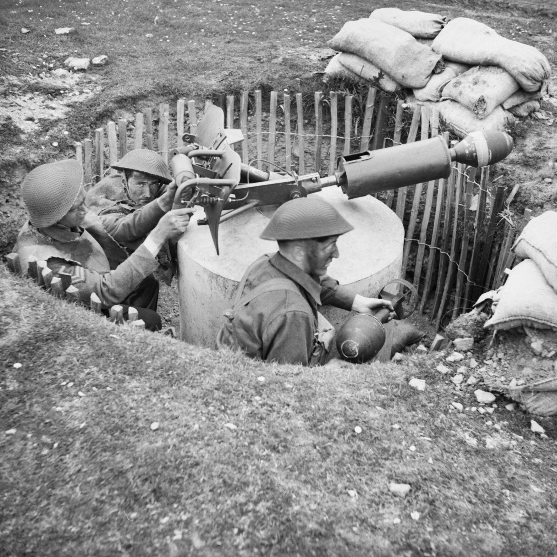 Home Guard soldiers operate a 'Blacker Bombard' spigot mortar during training at No. 3 GHQ Home Guard School at Onibury near Craven Arms in Shropshire, 20 May 1943. Home Guard soldiers operate a 'Blacker Bombard' spigot mortar during training at No. 3 GHQ Home Guard School at Onibury near Craven Arms in Shropshire, 20 May 1943.